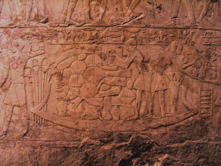 Relief of the tomb of Kheruef - 18th dynasty of Egypt